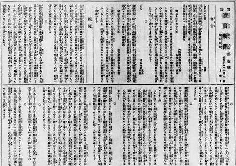 Front page of the first issue of Yomiuri Shimbun